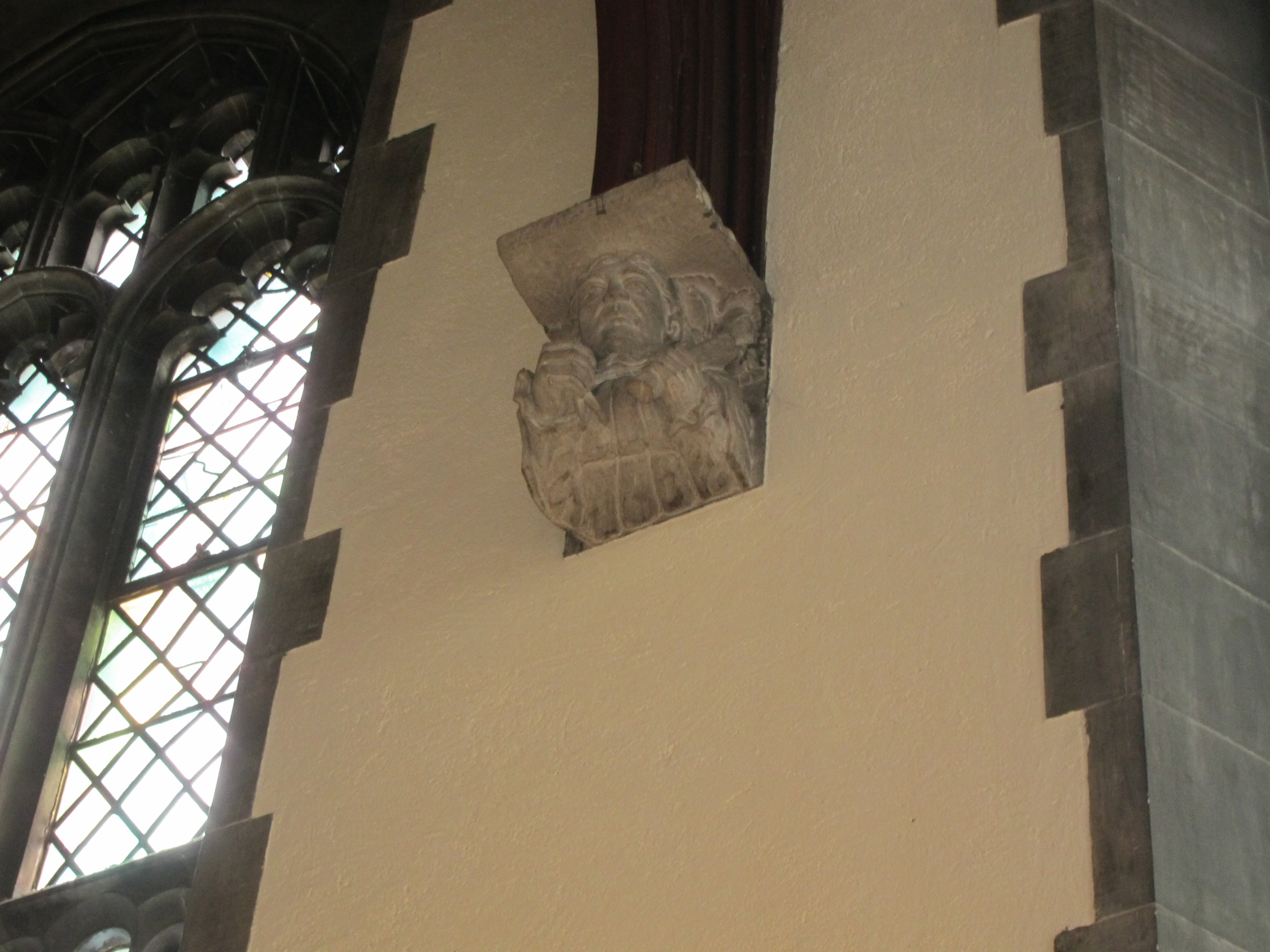 Inconsistent with the Gothic setting: one of the stone corbels has been carved to represent an officer cadet of 1916 in uniform, carrying his field pack and rifle.